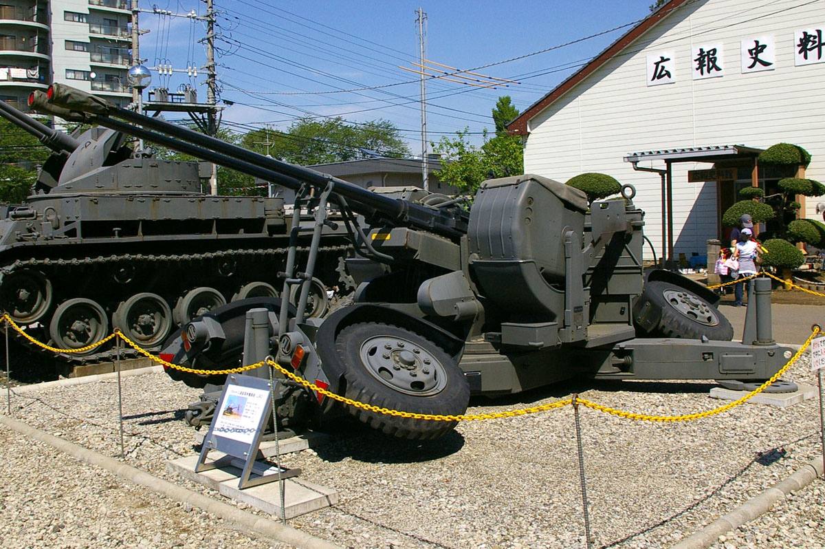 JGSDF Camp-Shimoshizu.JGSDF L-90 AAA,Air Defence Artillery School.